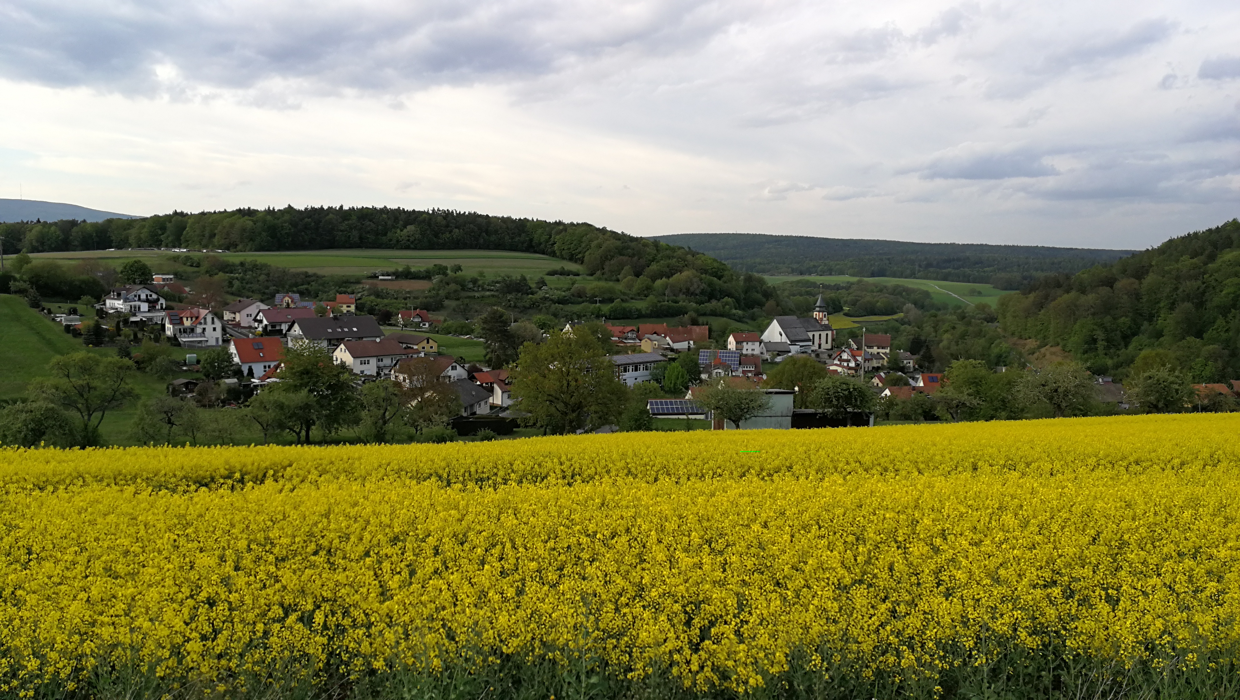 The picture depicts the village Stralsbach (part of Burkardroth, Germany) in May 2019 from southwestern direction.